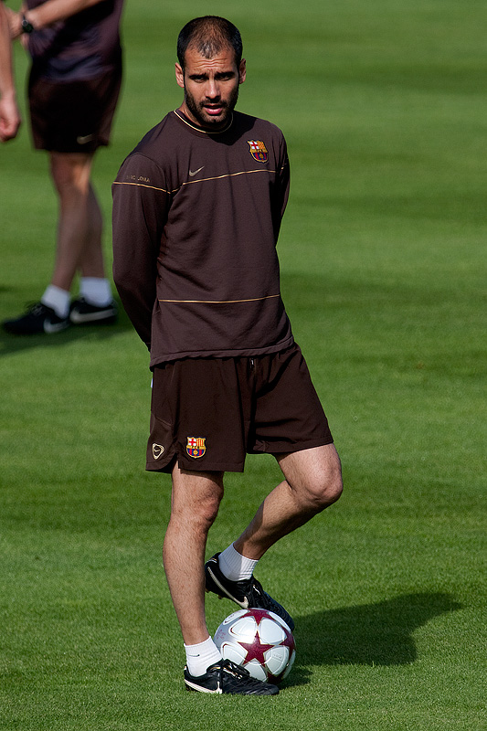 Entrenos antes de la épica de Roma.